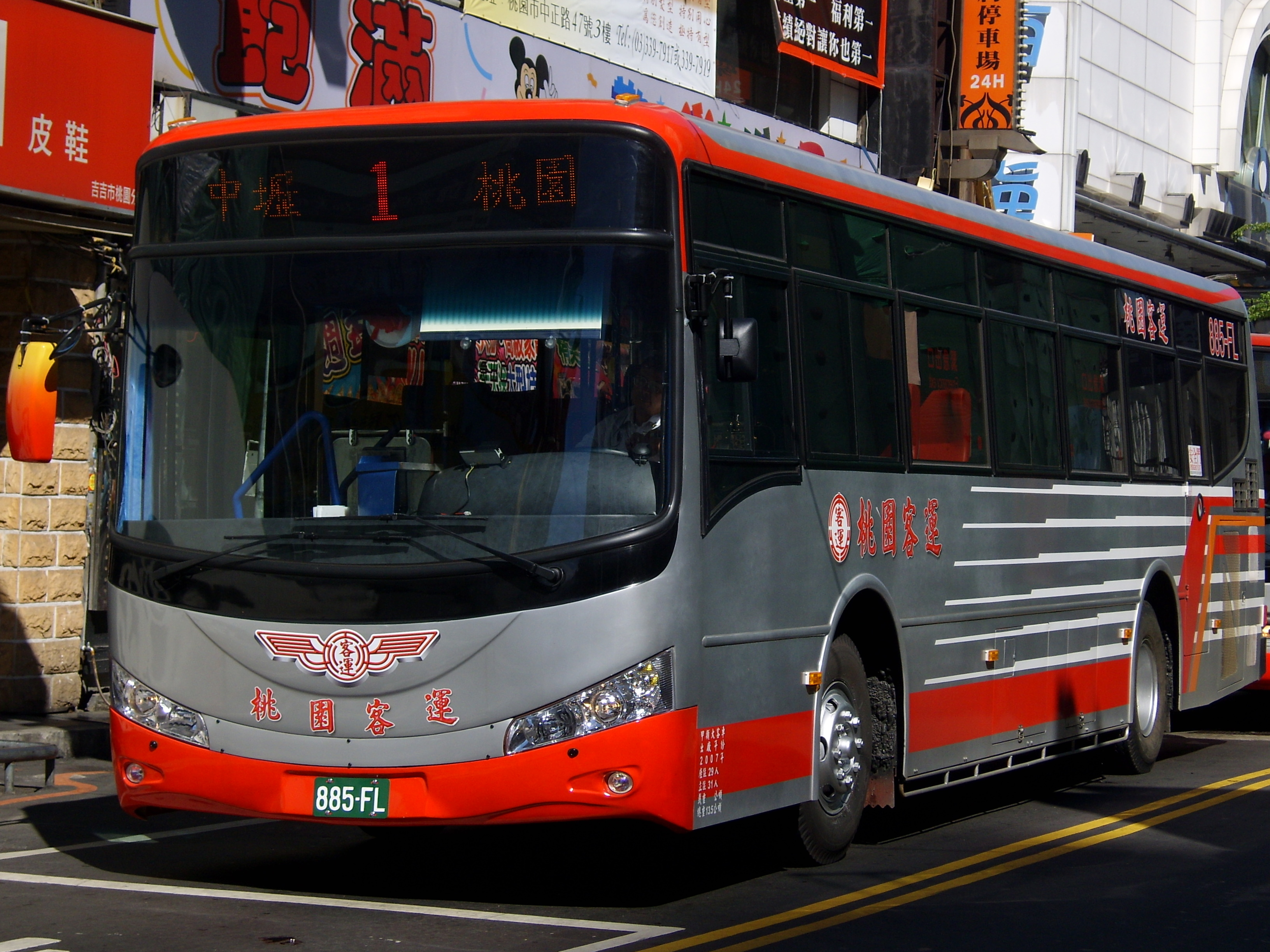 2007 Isuzu LT134PLK by Taoyuan City Bus.